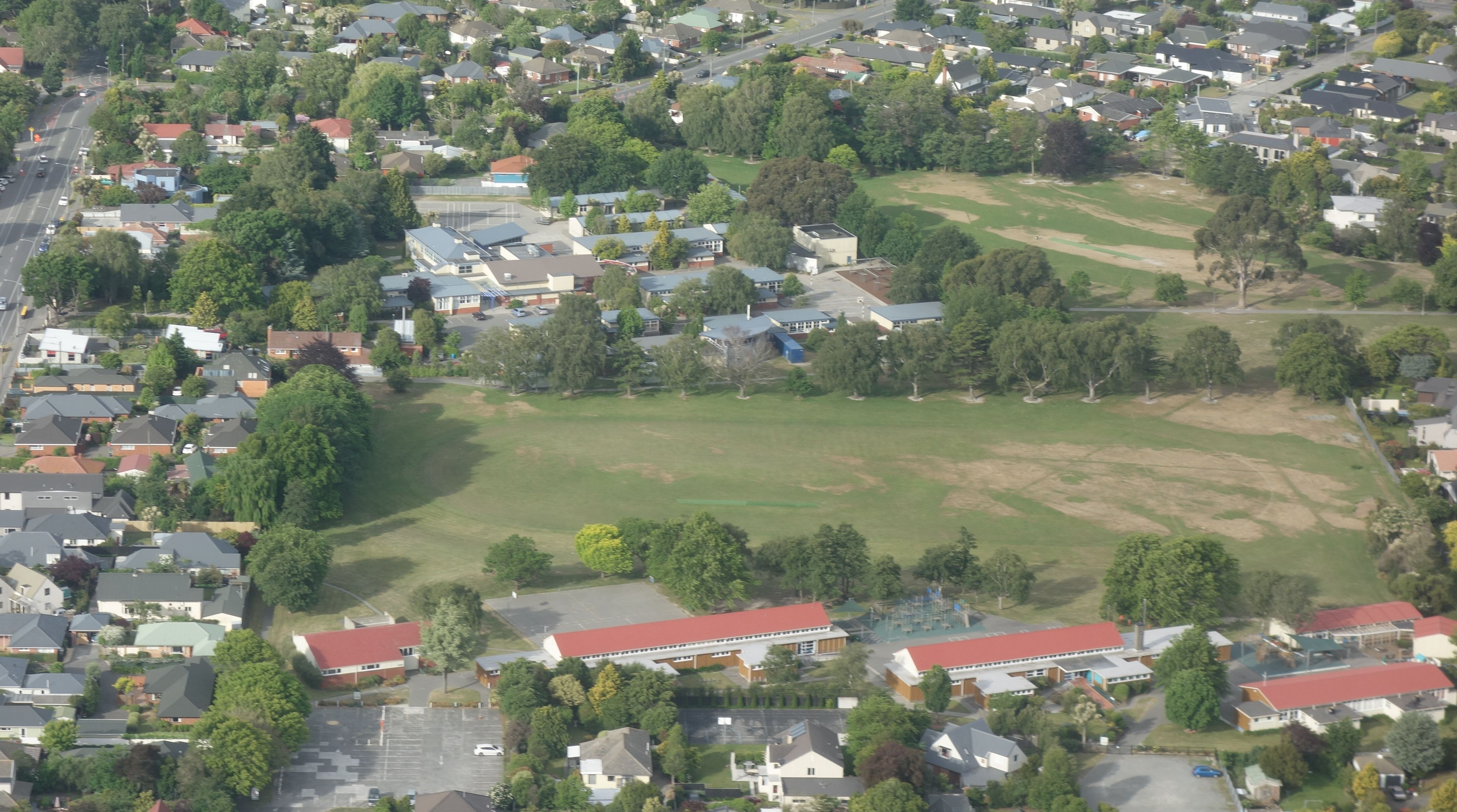 Aerial photo of Cobham Intermediate School